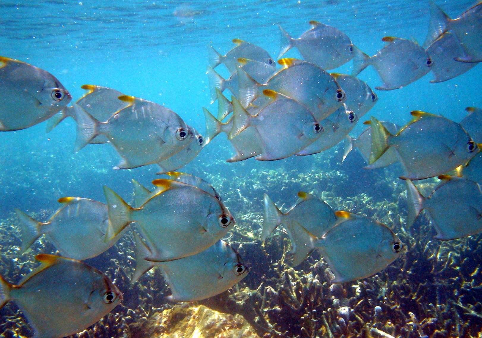 School of Monodactylus argenteus swimms above dead corals at Madagascar